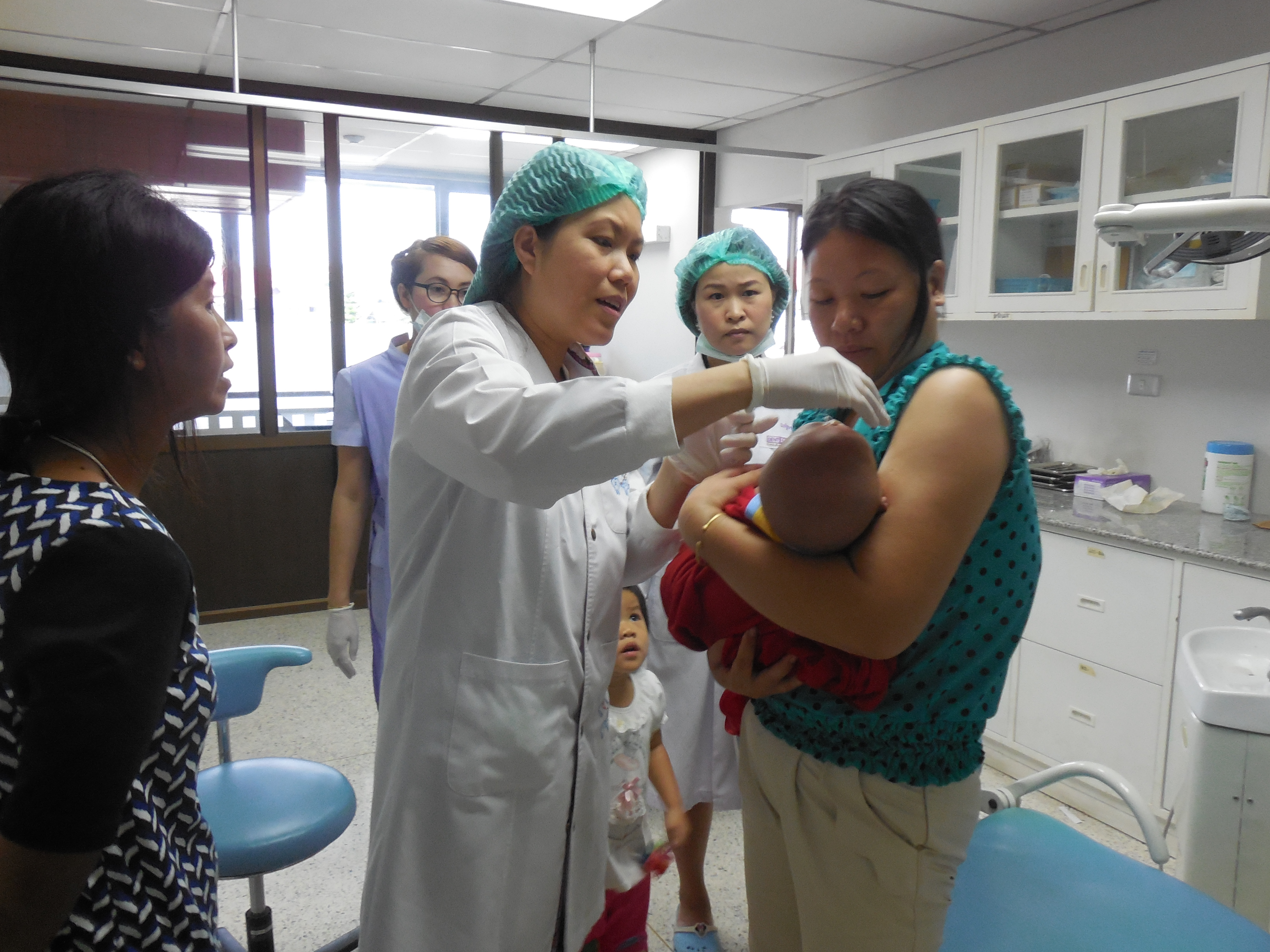 test